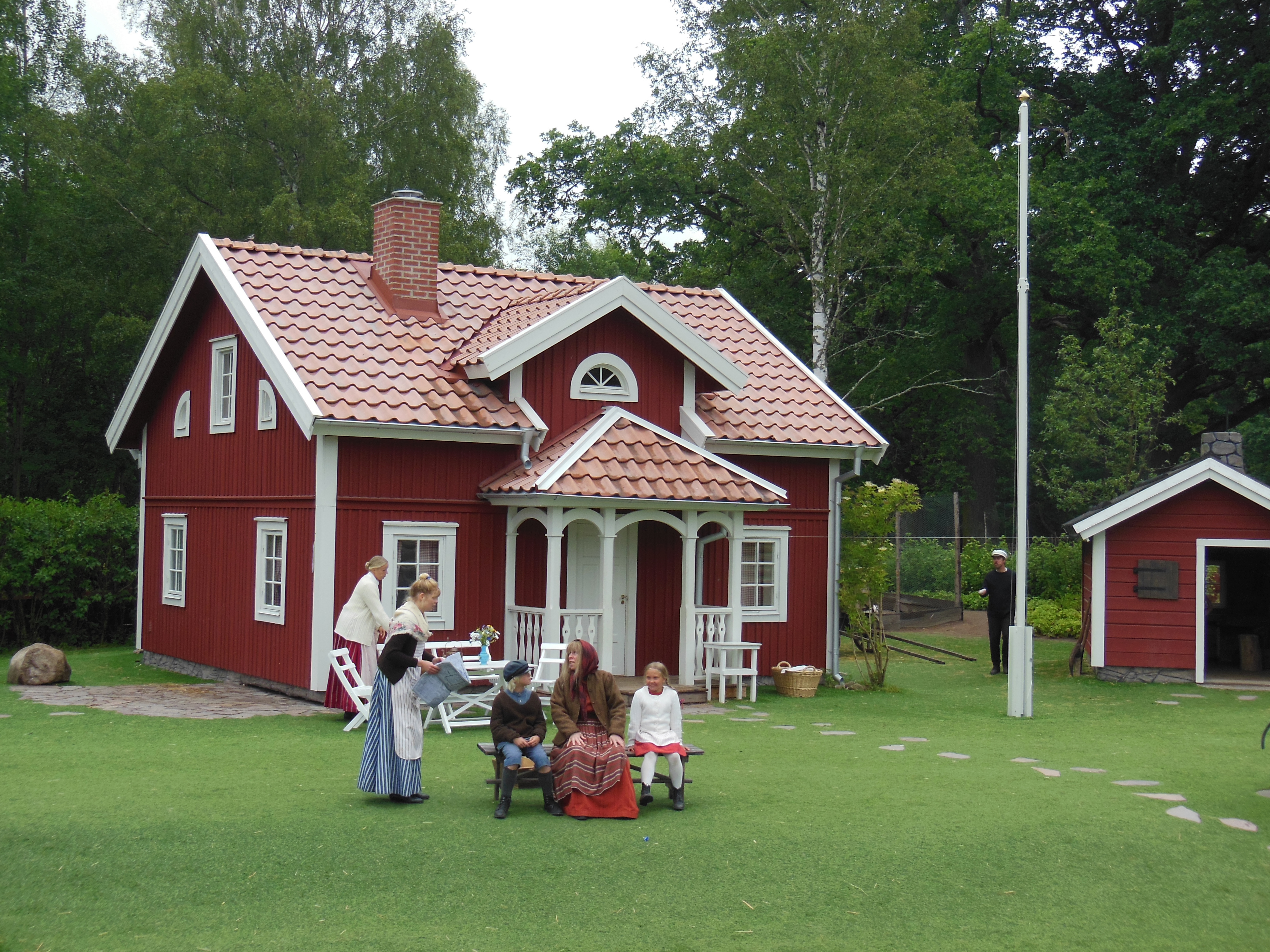 Katthult at Astrid Lindgrens Värld, Vimmerby 2014.